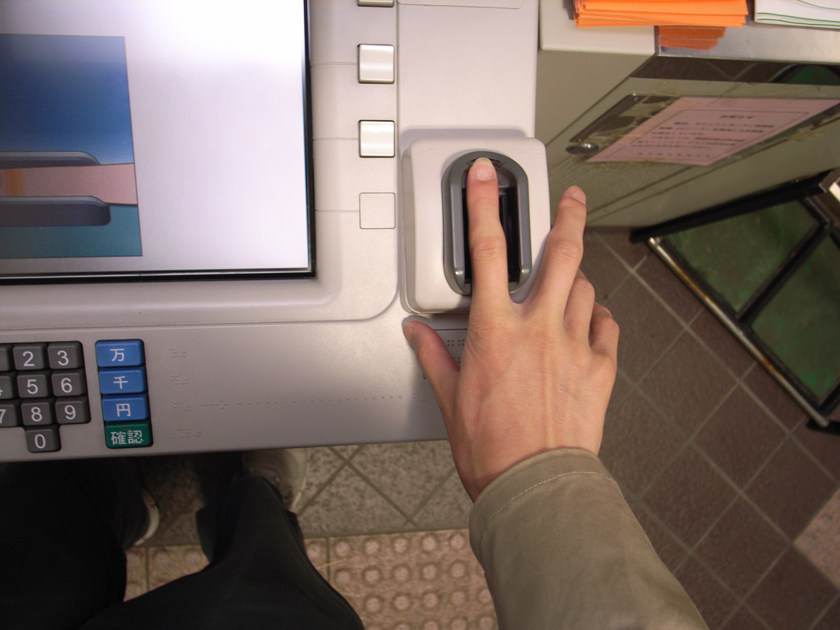 Biometrics